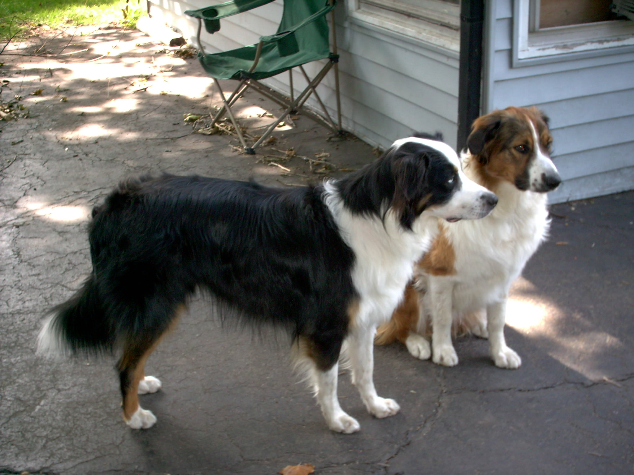 Rooney (upright) and Wessex (sitting). These are my two full-grown male English Shepherds. Although they are not show dogs, they are descended from one.